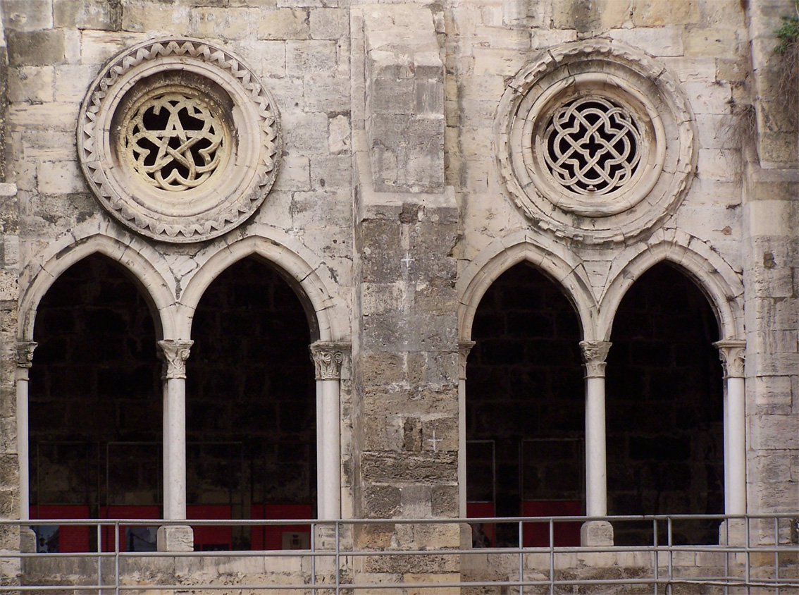 Cloisters in Lisbon cathedral